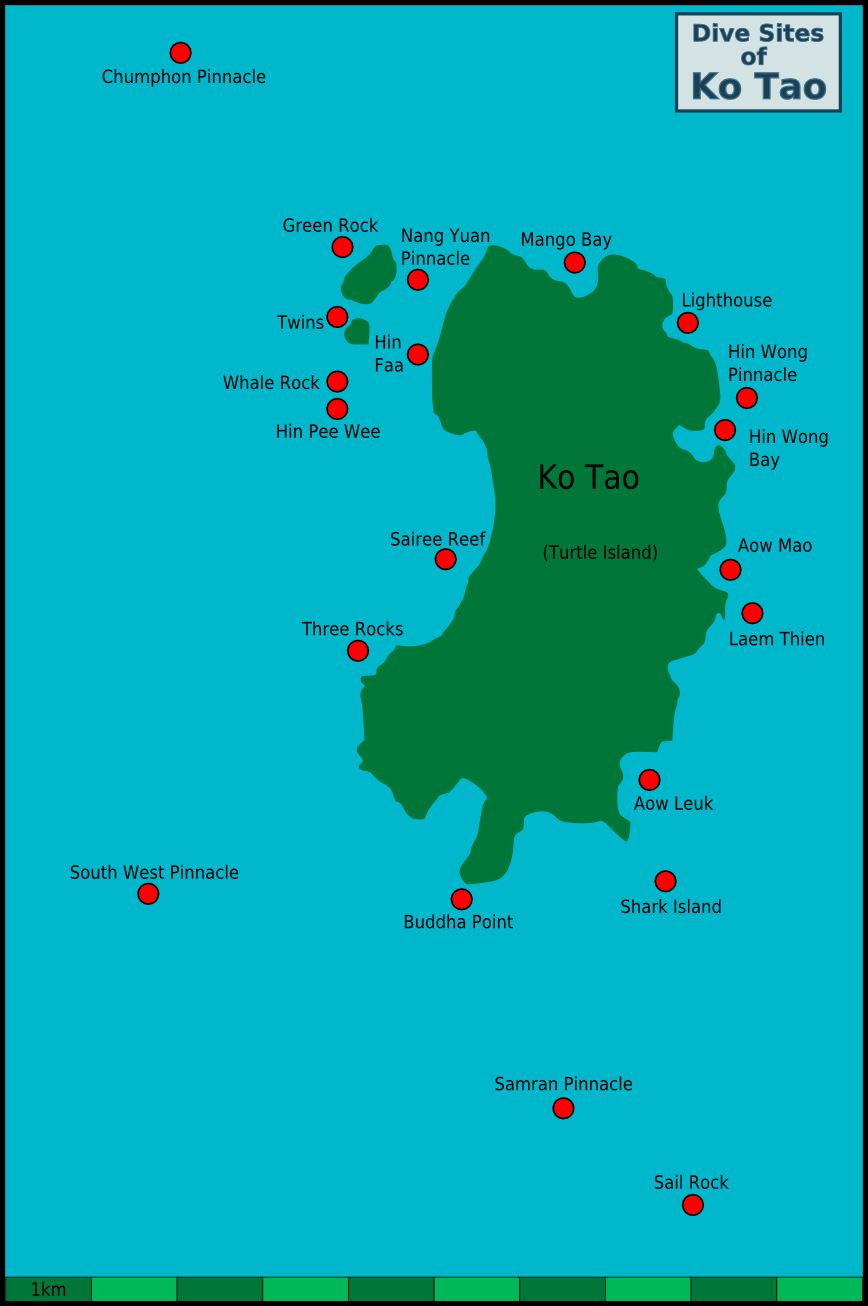 Map of the dive sites of Ko Tao, Thailand.